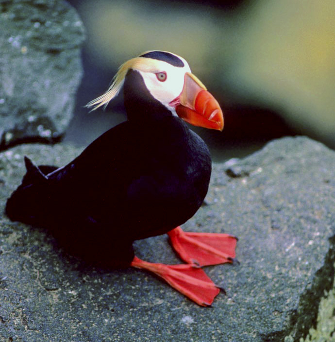 Tufted Puffin, Fratercula cirrhata